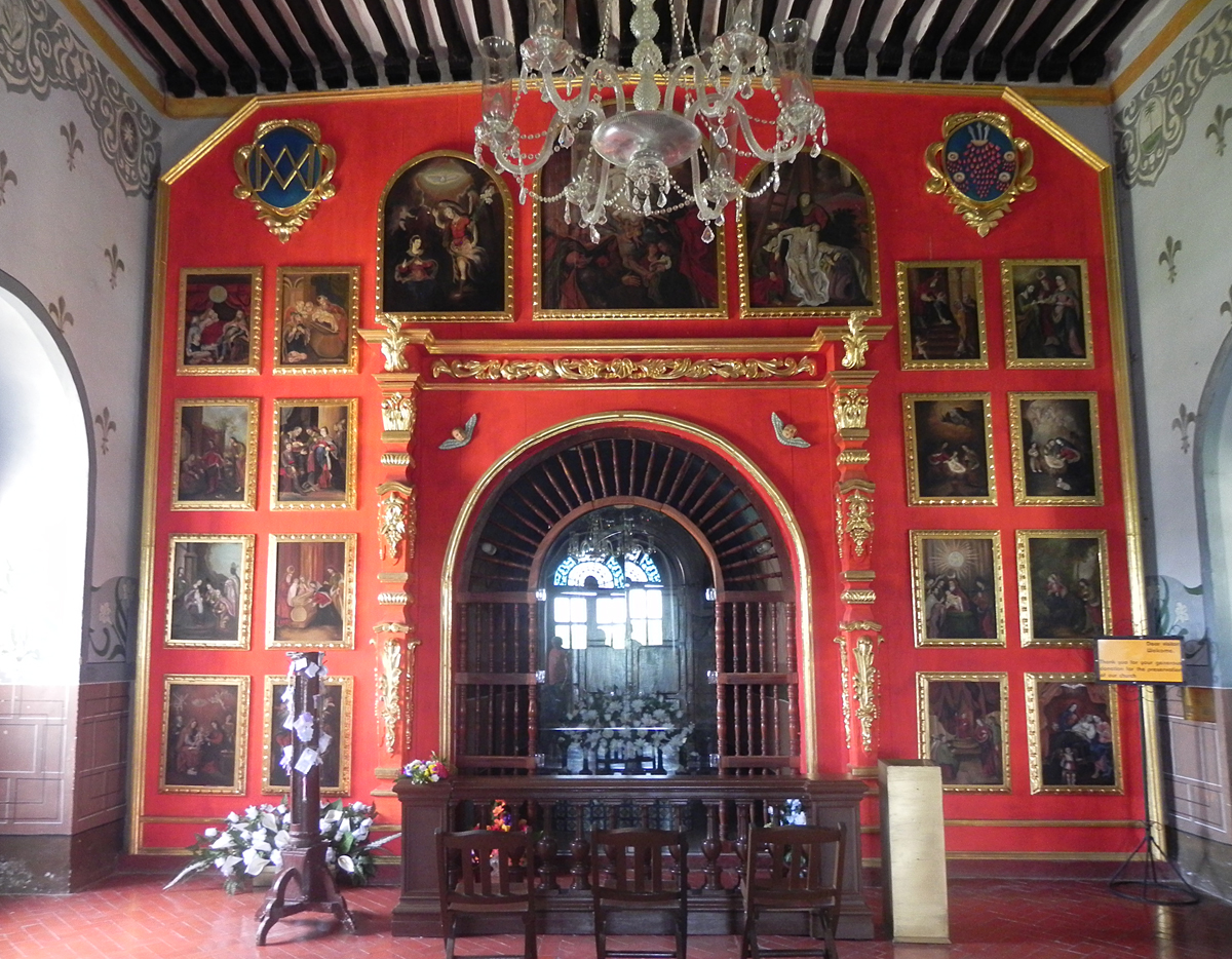 Convento De San Antonio De Padua - Room of the museum